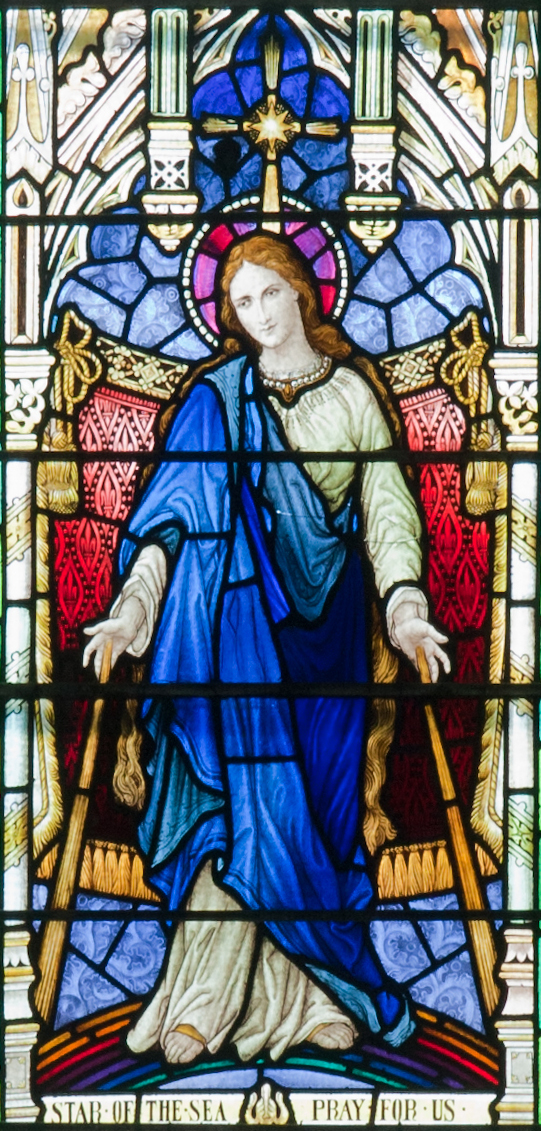 Detail of the stained glass of the fourth window of the south wall, depicting Our Lady, Star of the Sea.